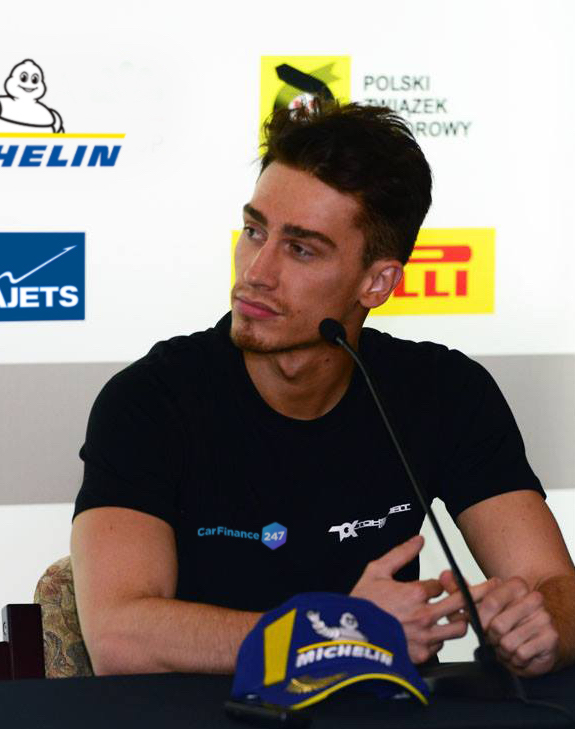 Chris Ingram being interviewed before the FIA European Rally Championship.